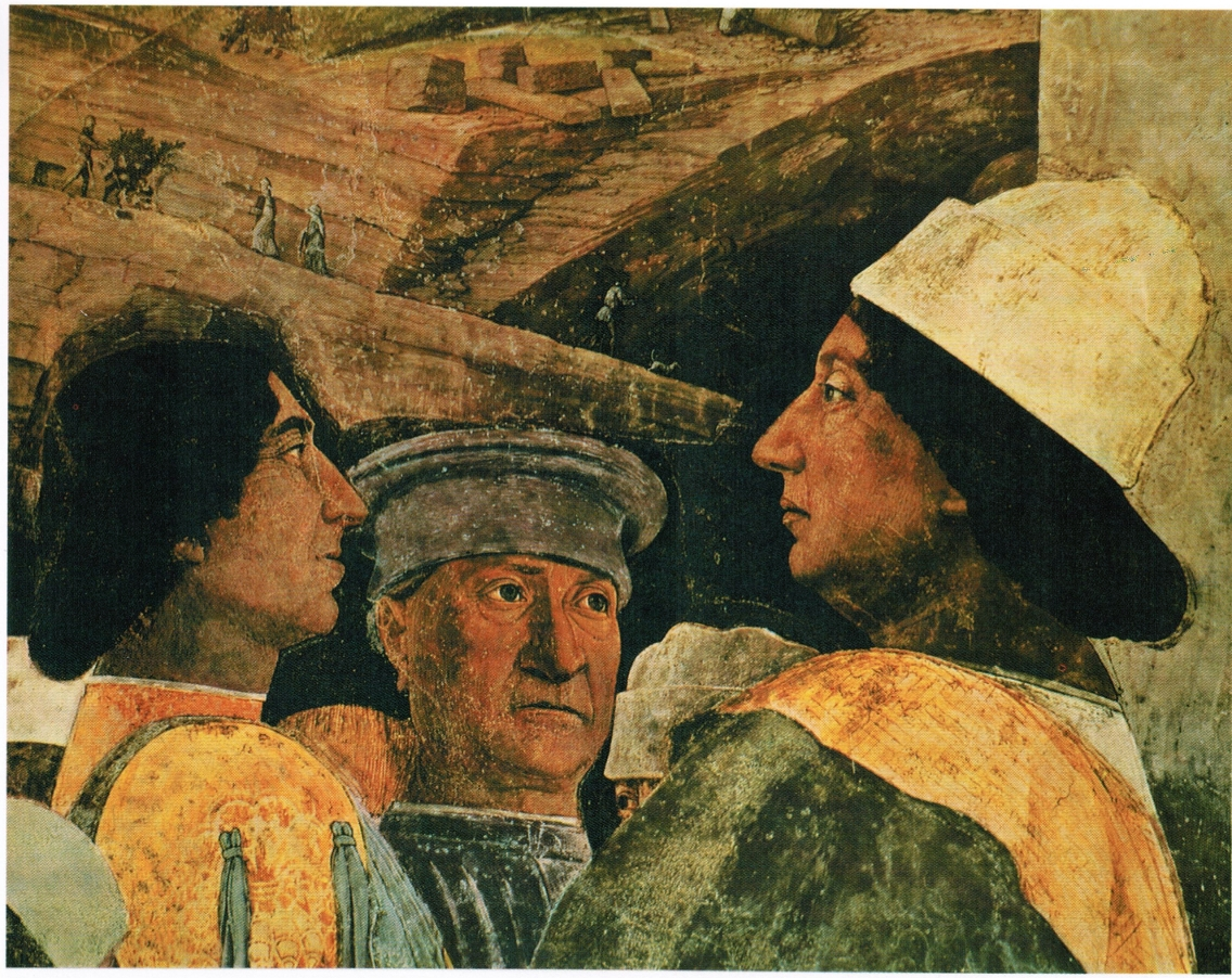 Detail with portrait of Federico Gonzaga